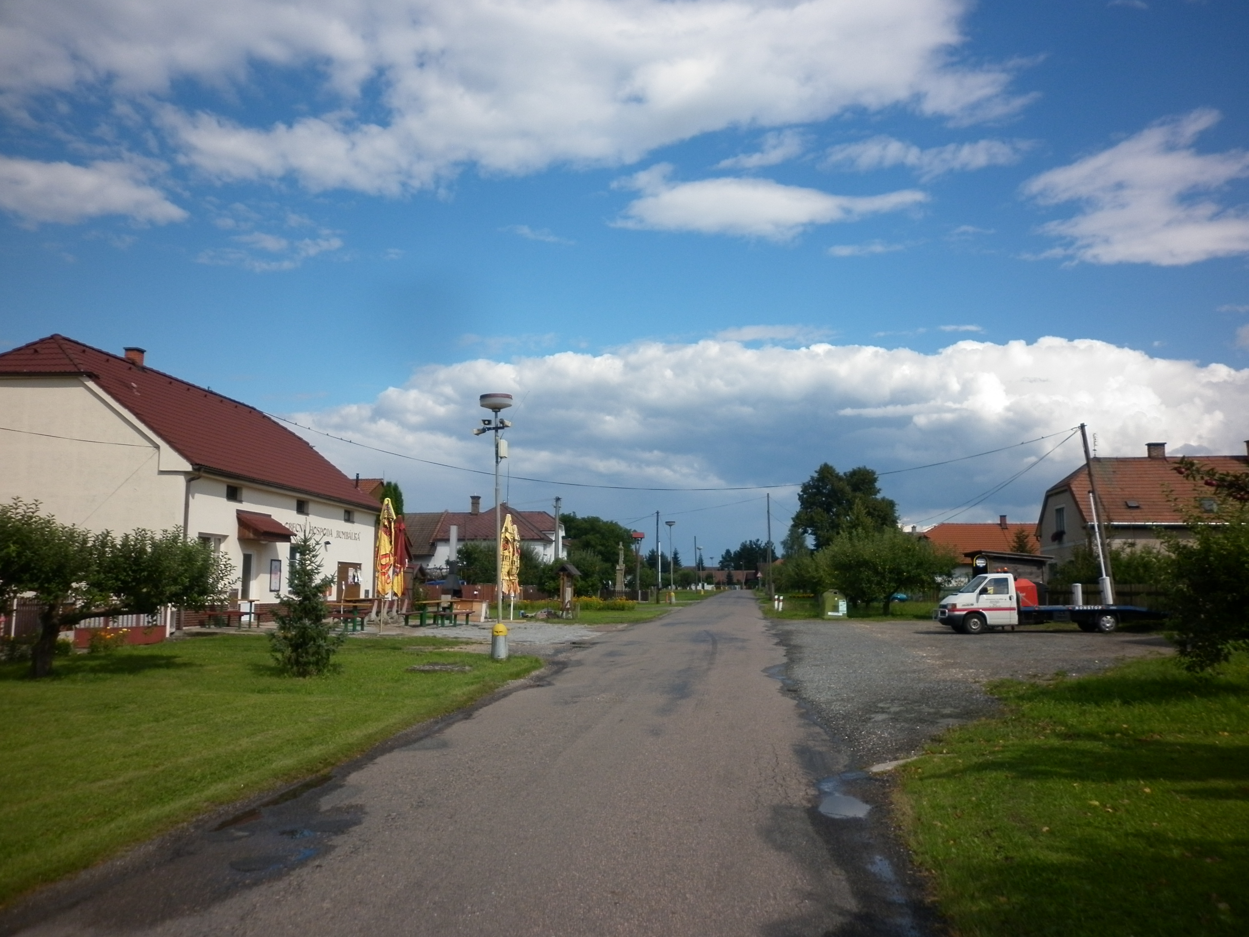 Hrachoviště, part of Býšť, in Pardubice District